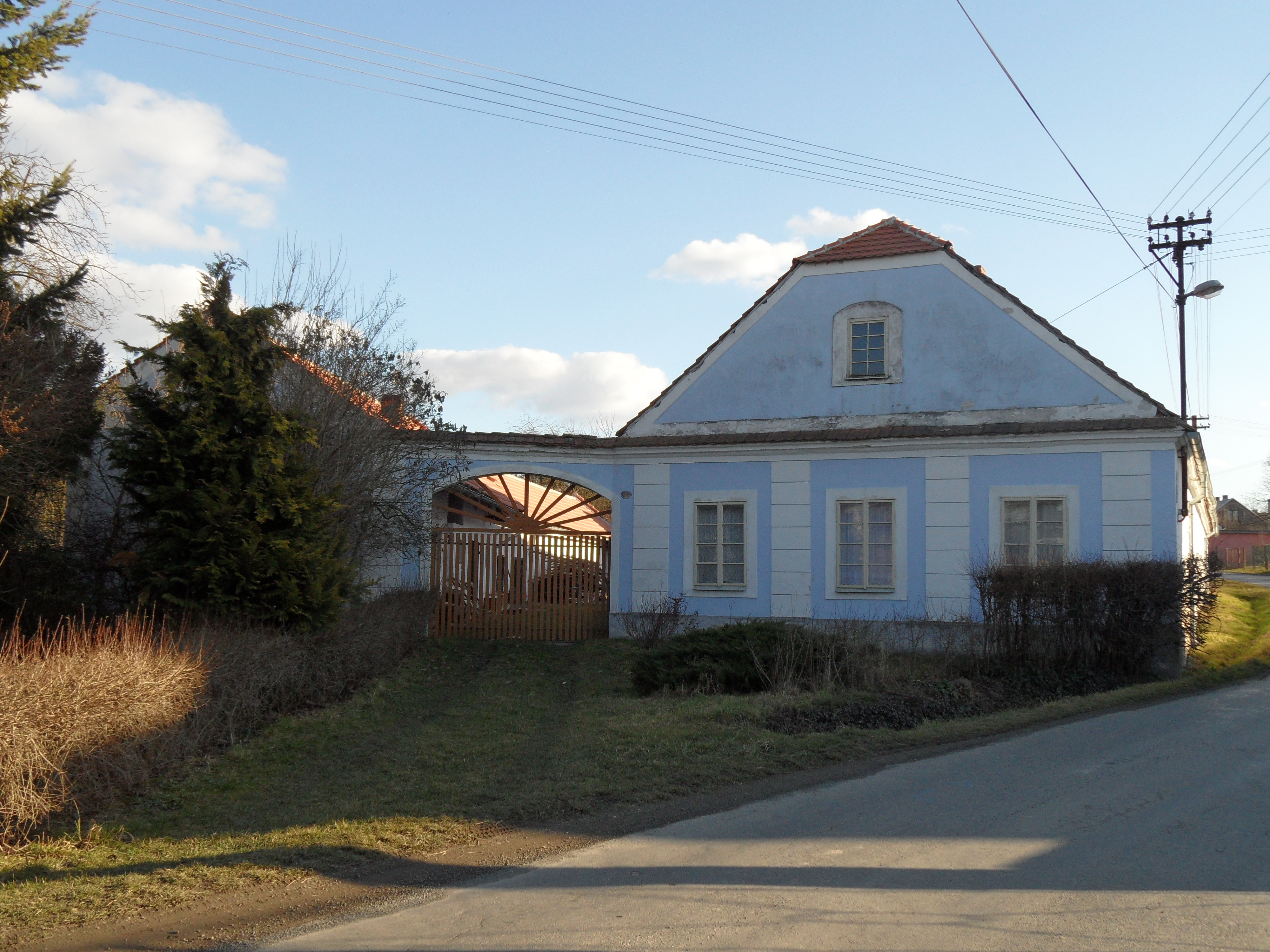 Spytice D. House No. 13, Havlíčkův Brod District, the Czech Republic.